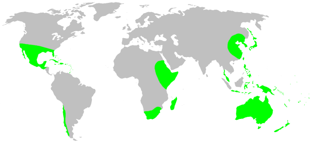 Desidae habitat distribution, drawn after Platnick: World Spider Catalog 7.0. This is not at all a precise rendering of the distribution! If you have better information, please replace this map, or send me the info, and i will redraw it.